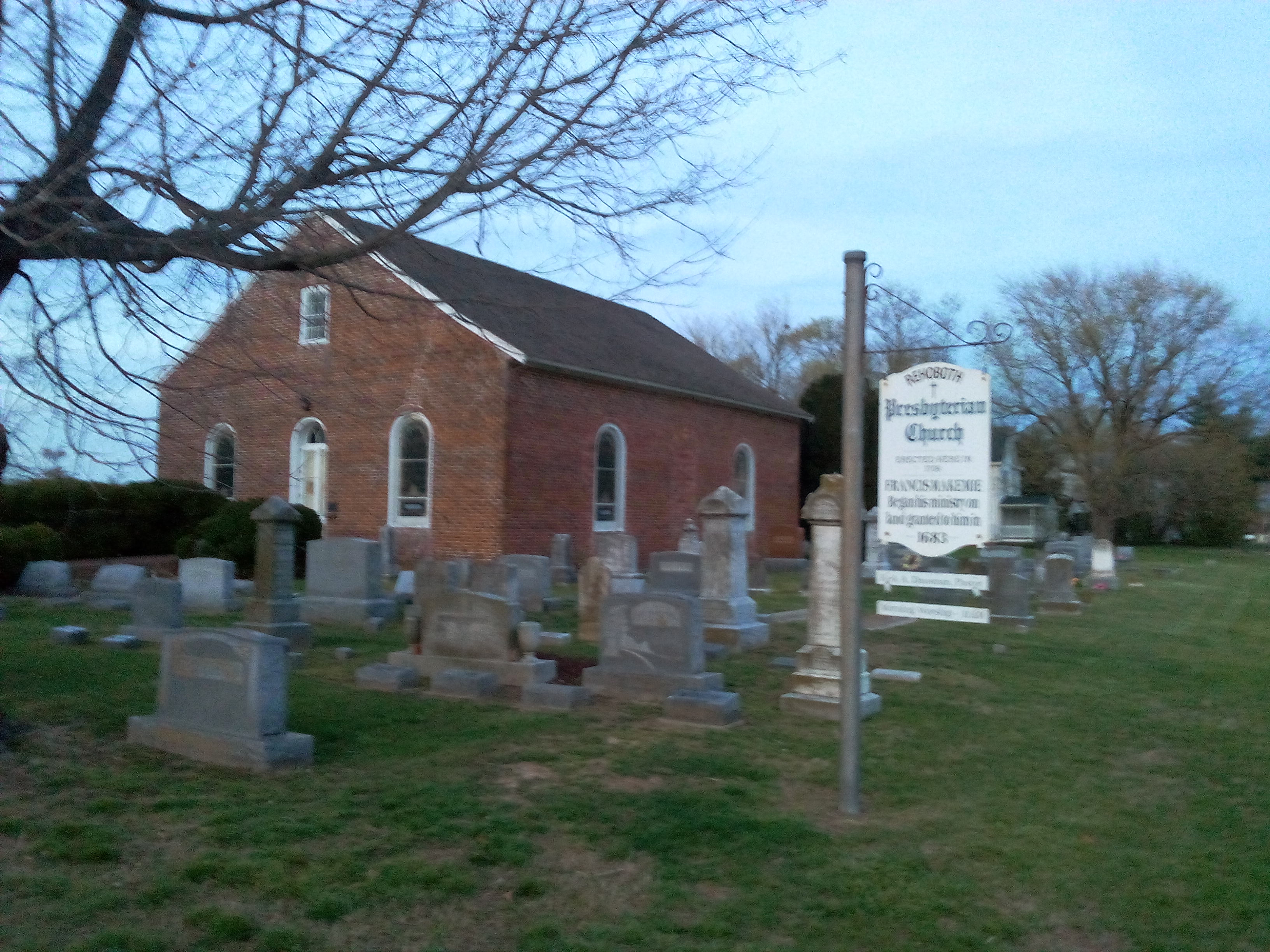 Across from Coventry Episcopal Church ruins in rural Somerset County, Maryland; near sunset, at least one Episcopal grave translated into the cemetery surrounding this church